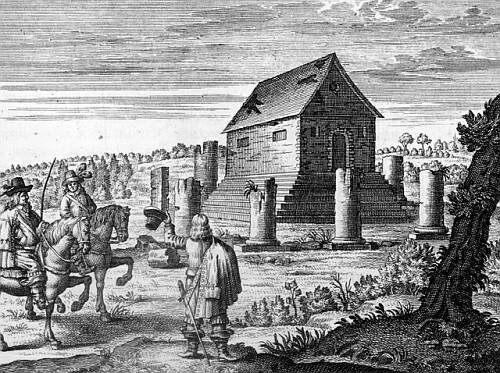 J. A. Mandelslo, The Voyages and Travels of J. Albrecht de Mandelslo into the East Indies from 1638-1640. Rendered into English by John Davies, London, 1662